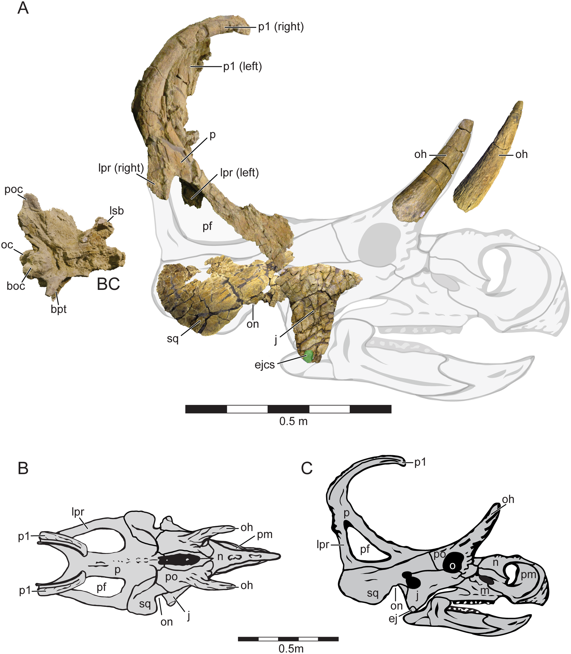 Holotype cranial Material and Cranial Reconstruction of Machairoceratops cronusi (UMNH VP 20550) gen. et sp. nov. Recovered cranial elements of Machairoceratops in right-lateral view, shown overlain on a ghosted cranial reconstruction (A). The jugal, squamosal and braincase are all photo-reversed for reconstruction purposes. Machairoceratops cranial reconstruction in dorsal (B), and right-lateral (C) views. Green circle overlain on the ventral apex of the jugal highlights the size of the epijugal contact scar (ejcs). Abbreviations: BC, braincase; boc, basioccipital; bpt, basipterygoid process; ej, epijugal; ejcs, epijugal contact scar; j, jugal; lpr, lateral parietal ramus; lsb, laterosphenoid buttress; m, maxilla; n, nasal; o, orbit, oc, occipital condyle; oh, orbital horn; on, otic notch; p, parietal; pf, parietal fenestra; pm, premaxilla; po, postorbital; poc, paroccipital process; p1, epiparietal locus p1; sq, squamosal. Scale bars = 0.5 m.